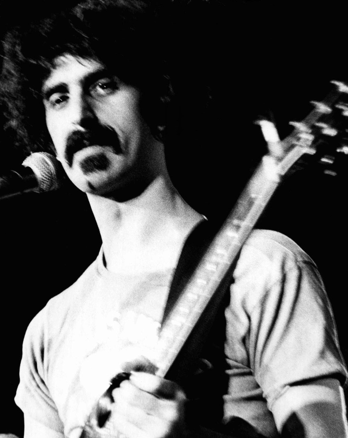 Photo of Frank Zappa performing.